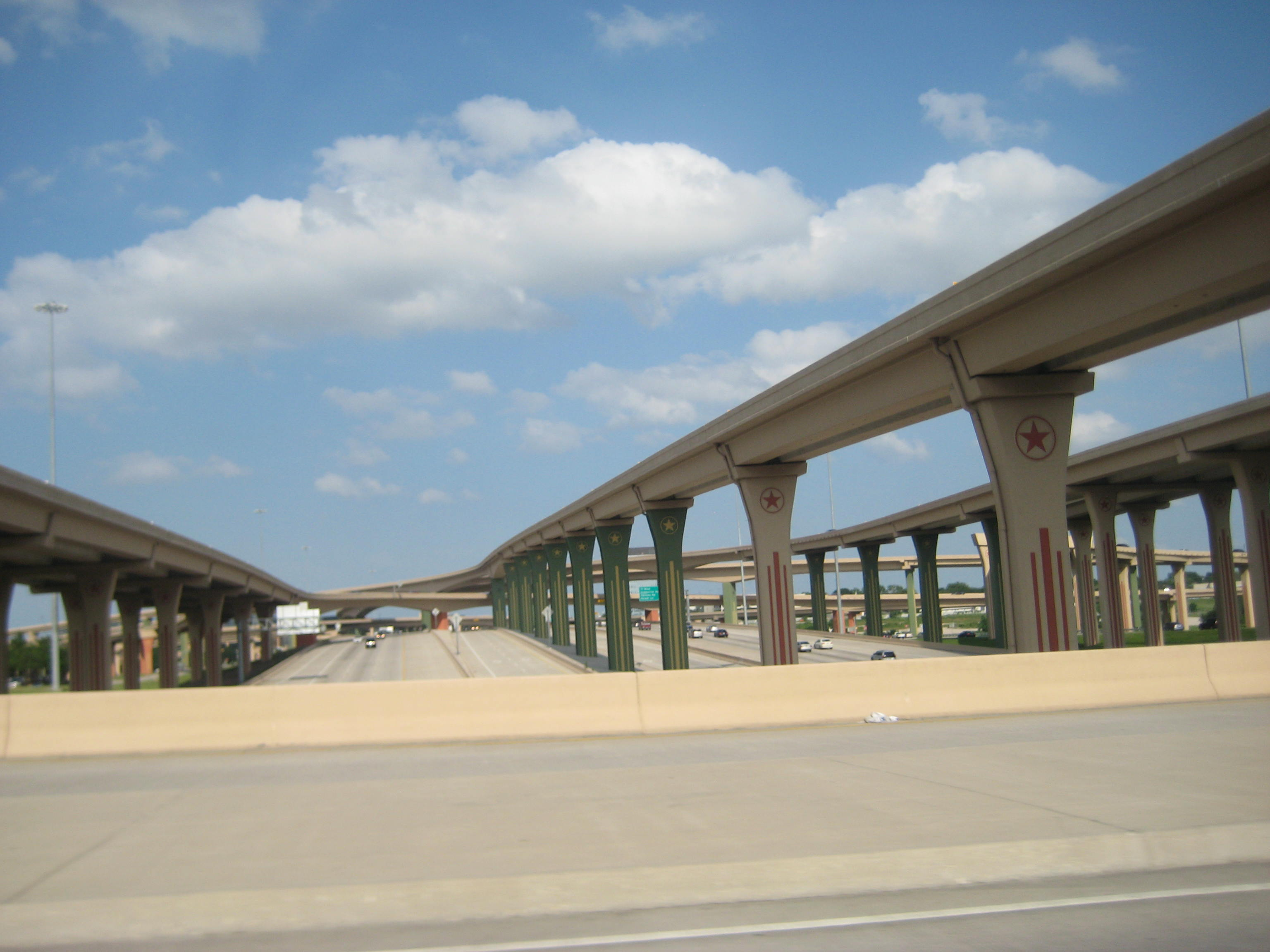 Central Exp Way-75 & I-635, Dallas, TX